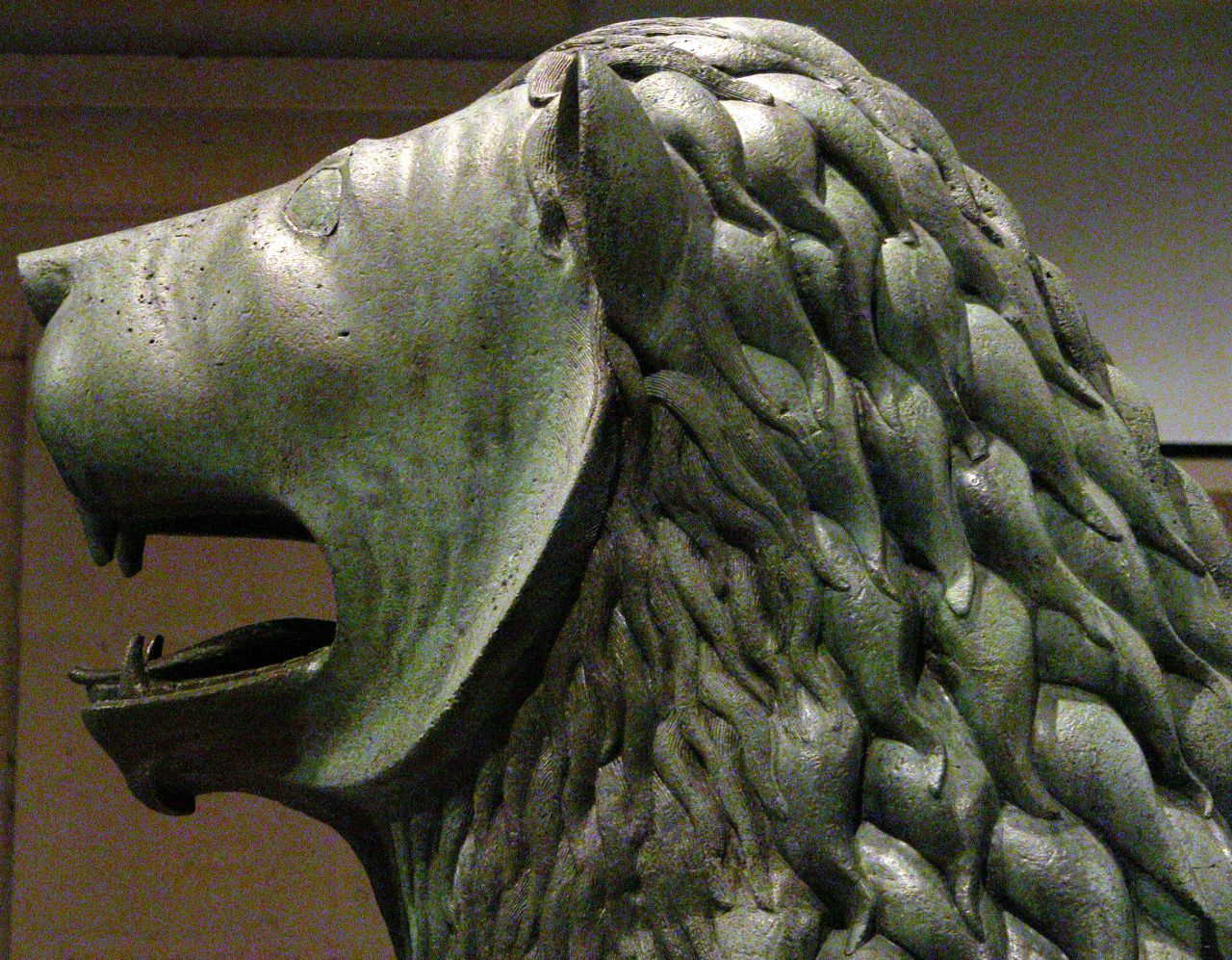 Head of the original Brunswick Lion